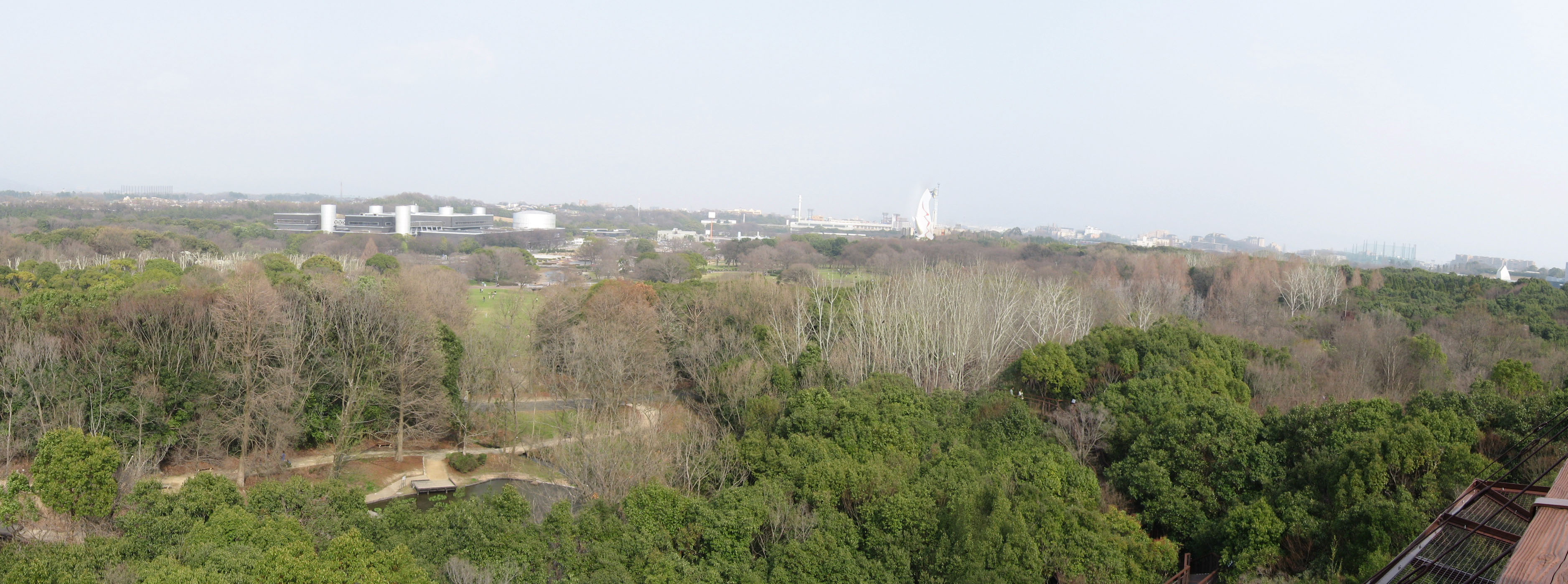 The Natural and Cultural Gardens in The Expo Memorial Park, Osaka Japan.